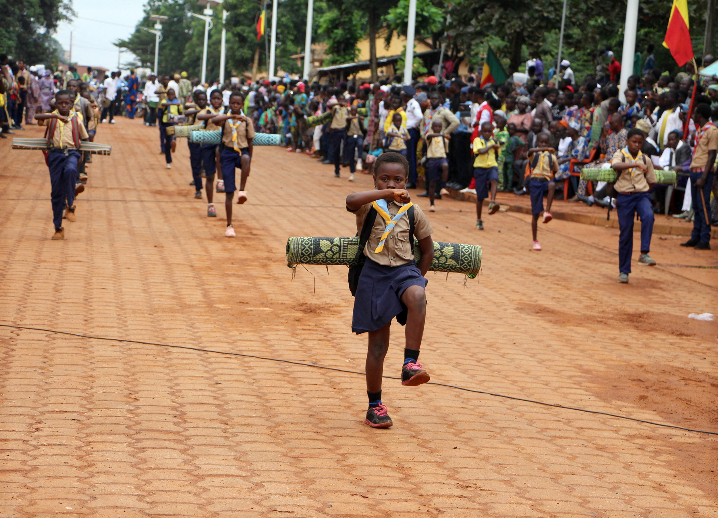 Scout children are on the sidelines of the August 1st parade in Benin This is an image with the theme "Africa on the Move or Transport" from: Benin